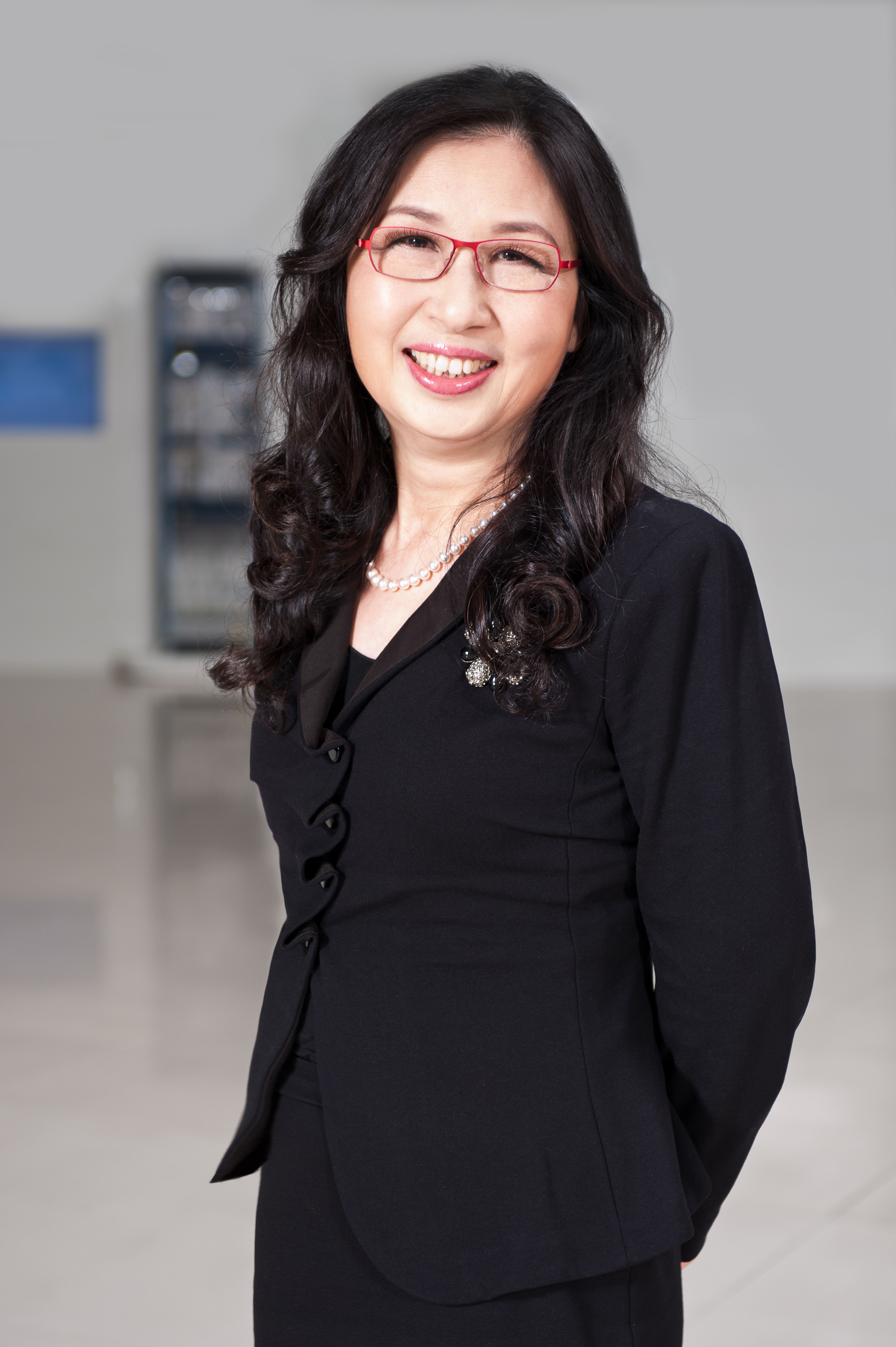 Portrait of Sun Yafang provided by Huawei Technologies Co., Ltd